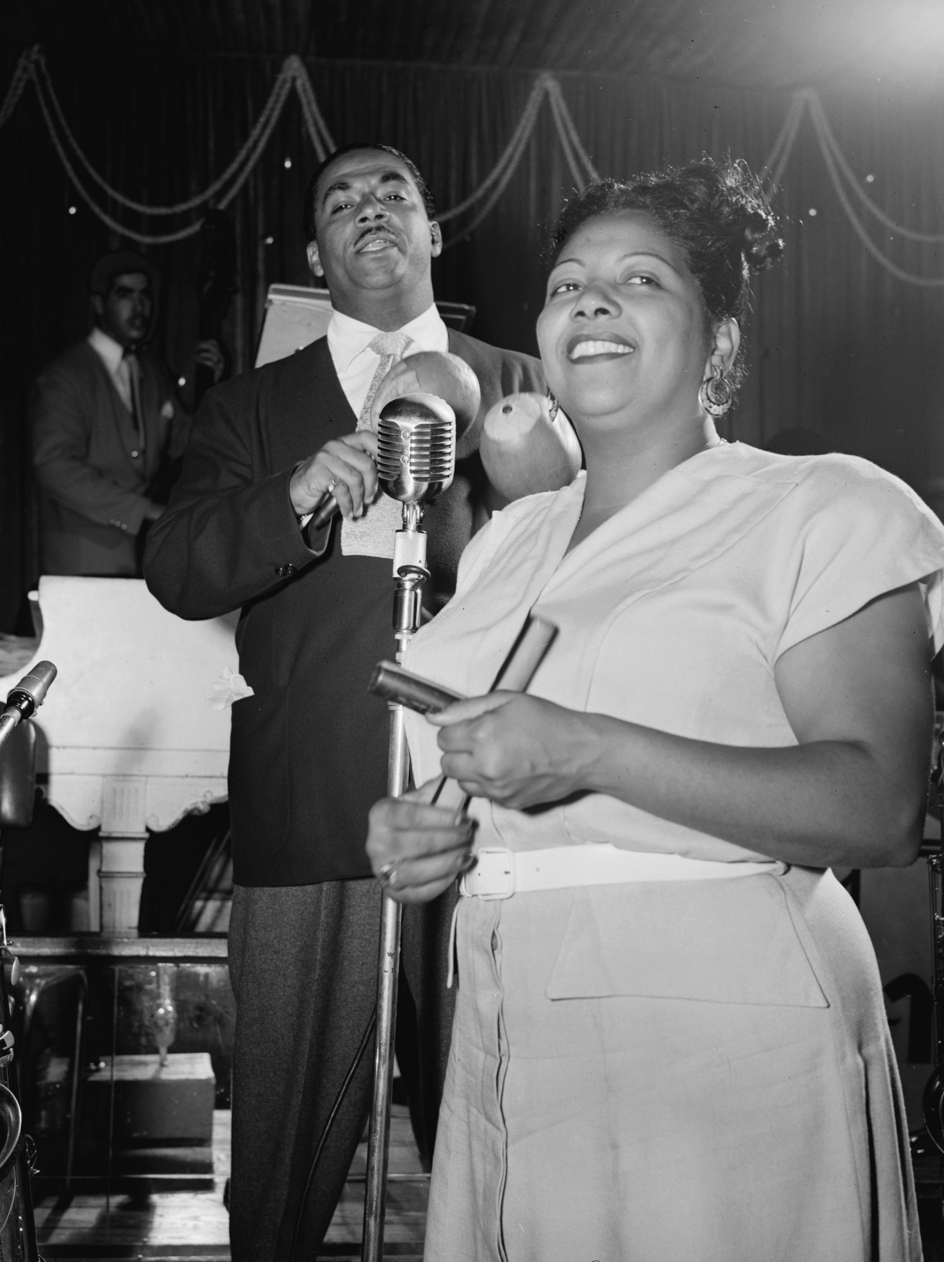 Gottlieb, William P., 1917-, photographer. Machito and Graciella Grillo, Glen Island Casino, New York, N.Y., ca. July 1947] 1 negative : b&w ; 3 1/4 x 4 1/4 in. Notes: Gottlieb Collection Assignment No. 222 Purchase William P. Gottlieb Forms part of: William P. Gottlieb Collection (Library of Congress). Subjects: Machito Grillo, Graciella Jazz musicians--1940-1950. Latin jazz--1940-1950. Women jazz musicians--1940-1950. Percussionists--1940-1950. Jazz singers--1940-1950. Glen Island Casino Format: Portrait photographs--1940-1950. Group portraits--1940-1950. Film negatives--1940-1950. Rights Info: Mr. Gottlieb has dedicated these works to the public domain, but rights of privacy and publicity may apply. Repository: (negative) Library of Congress, Prints & Photographs Division, Washington D.C. 20540 USA, Part Of: William P. Gottlieb Collection (DLC) 99-401005 General information about the Gottlieb Collection is available at Persistent URL: Call Number: LC-GLB23- 1379